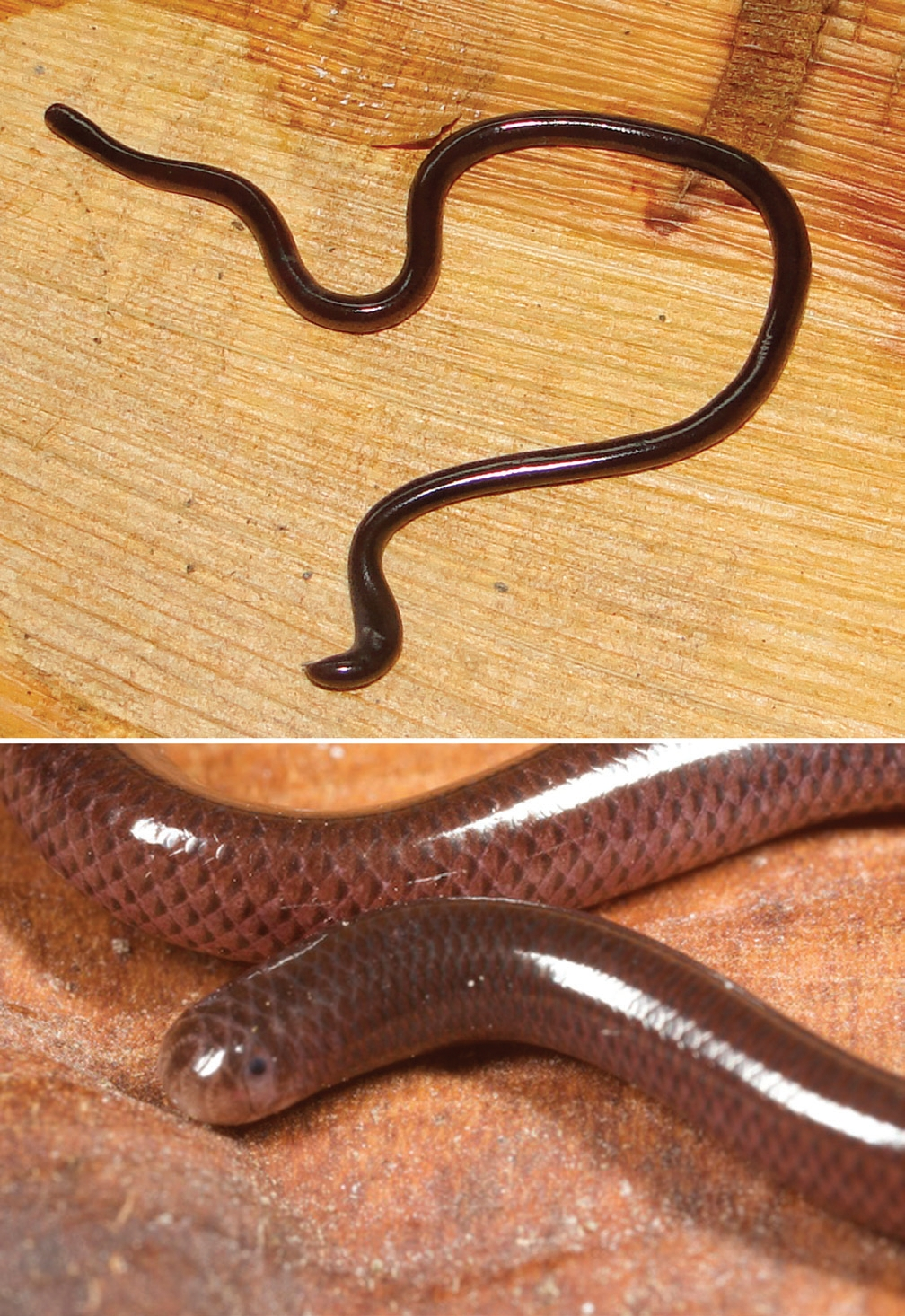 Ramphotyphlops braminus. Specimen (USNM 573683, SVL 147 mm, TL 150 mm) from the Same area, Manufahi District. Photos by Hinrich Kaiser (top) and Mark O’Shea (bottom).